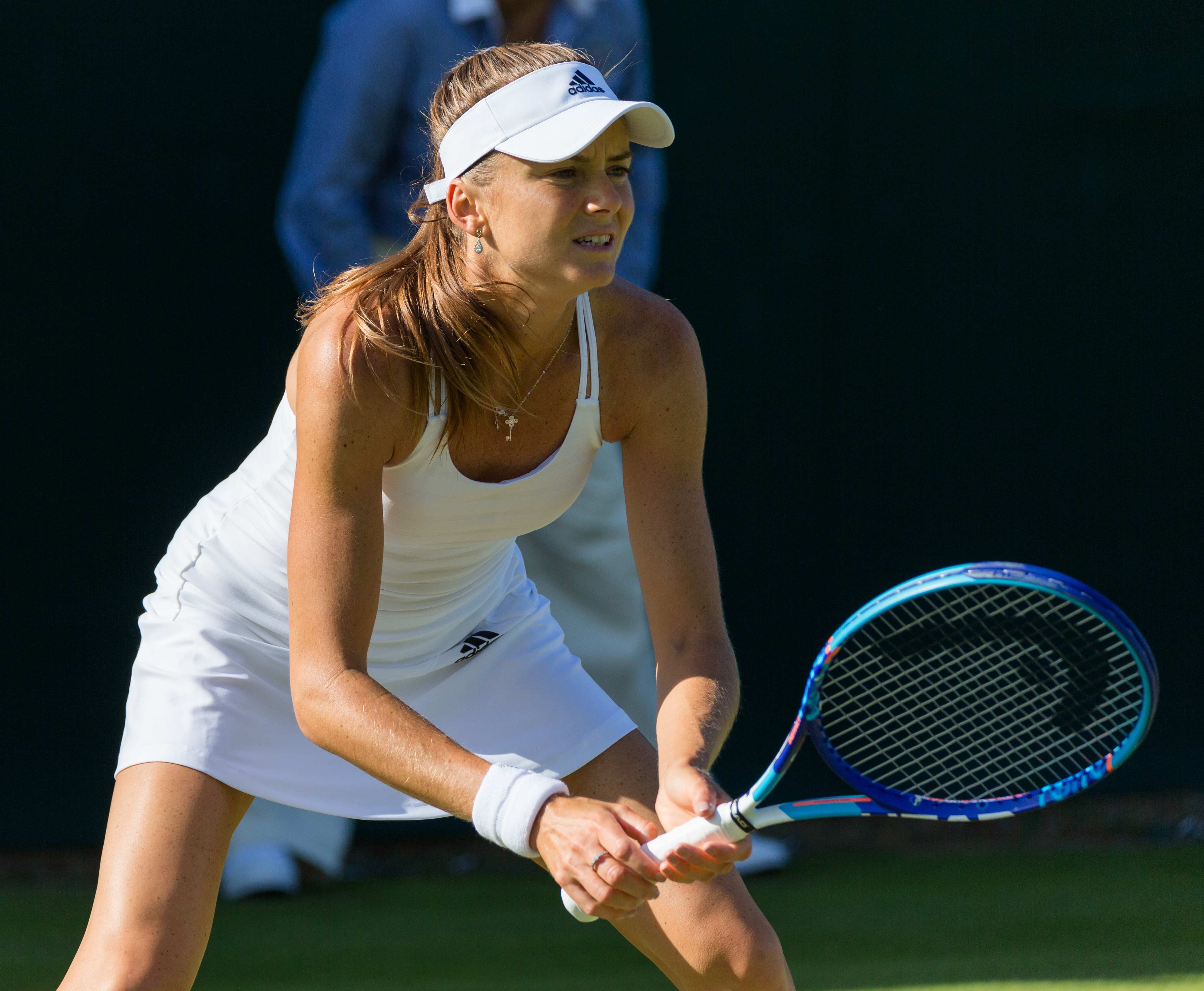 Daniela Hantuchová competing in the first round of the 2015 Wimbledon Championships against Dominika Cibulkova.